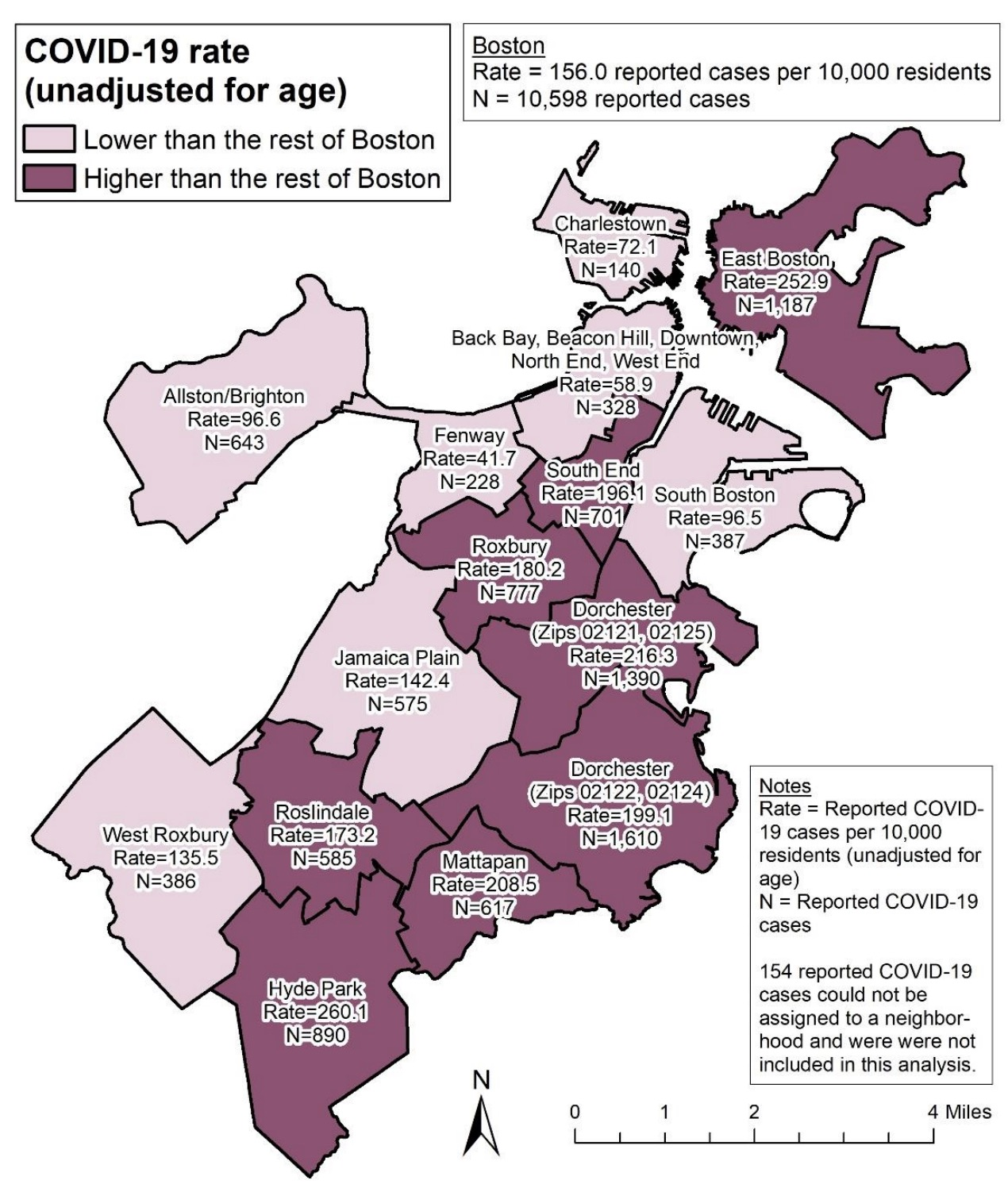 Determines using the legend showing which neighborhoods have relatively higher and lower case rates, relative to the rest of Boston. Published by Boston Public Health Commission.